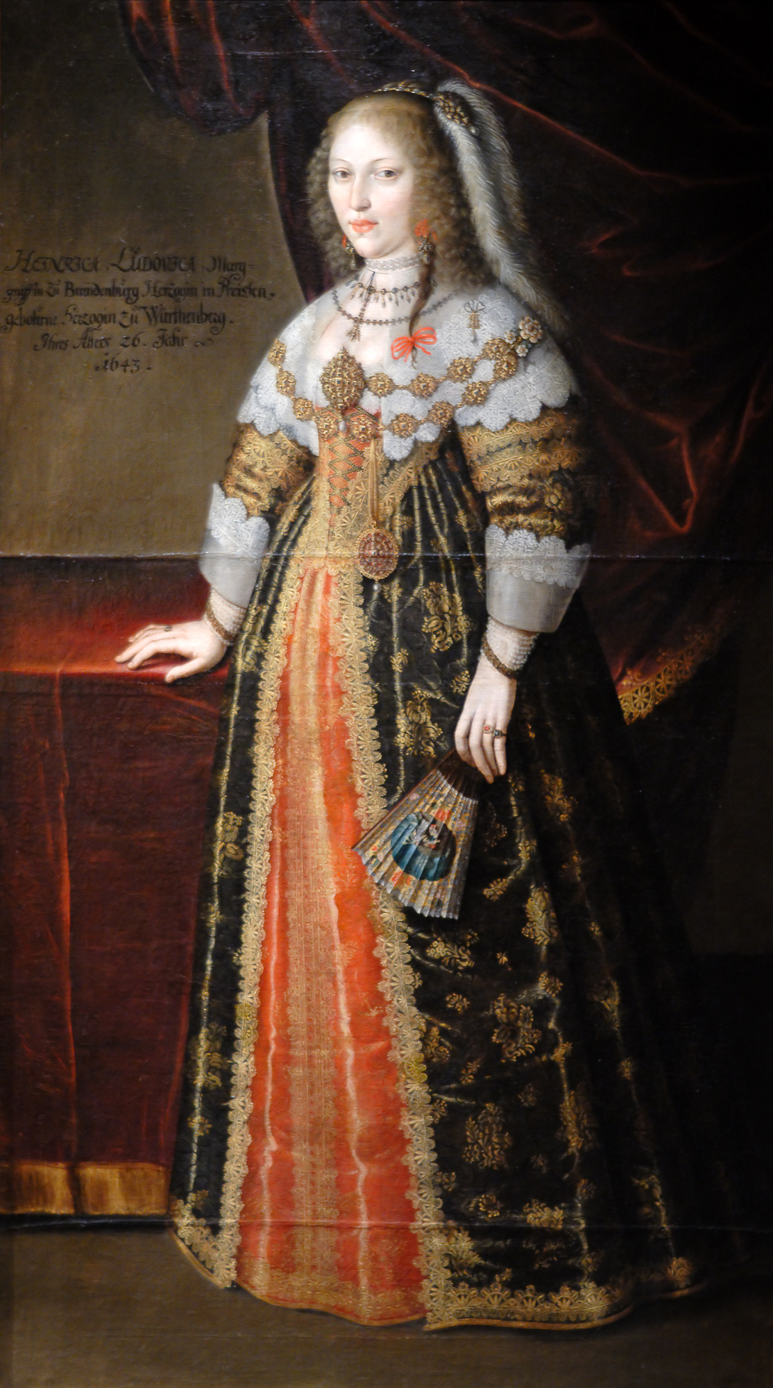 This image shows a portrait of Henriette Luise von Württemberg (1623-1650). It has been painted by Benjamin Block, 1643. The image has been taken at the Plassenburg in Kulmbach, Germany.